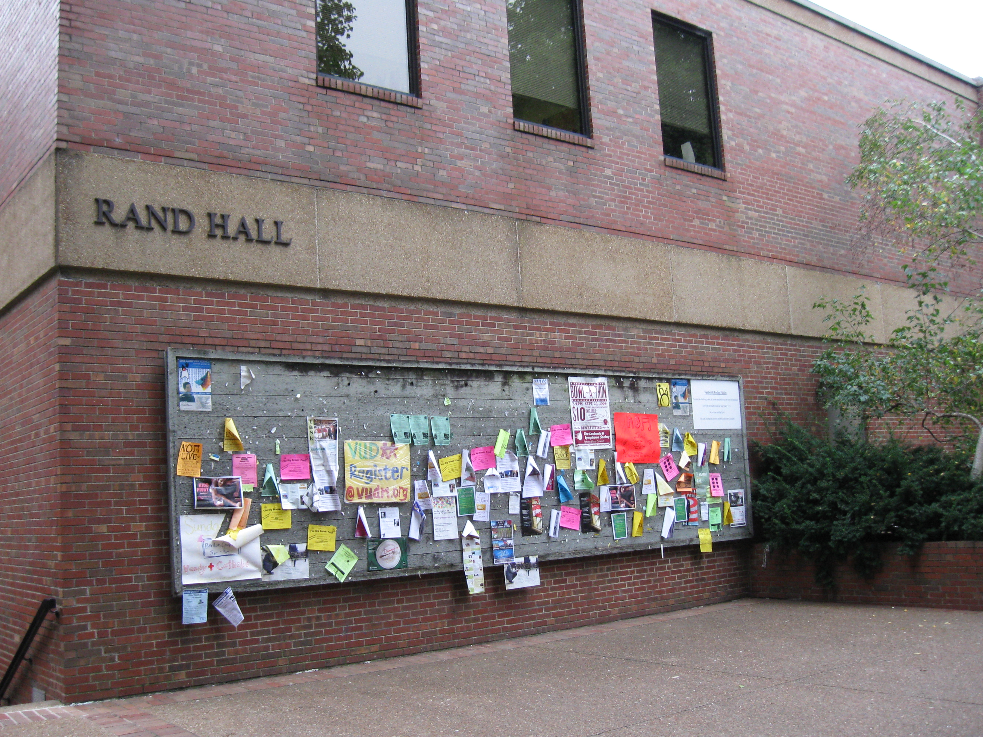 Rand Hall, located on main campus, is favorite meeting place for students. It is named after Frank C. Rand, who served as a member of the Vanderbilt Board of Trust for over 30 years.